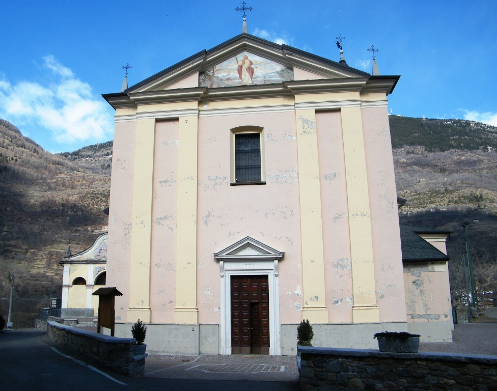 Church of Saint James. Santicolo, Corteno Golgi, Val Camonica, Italy.